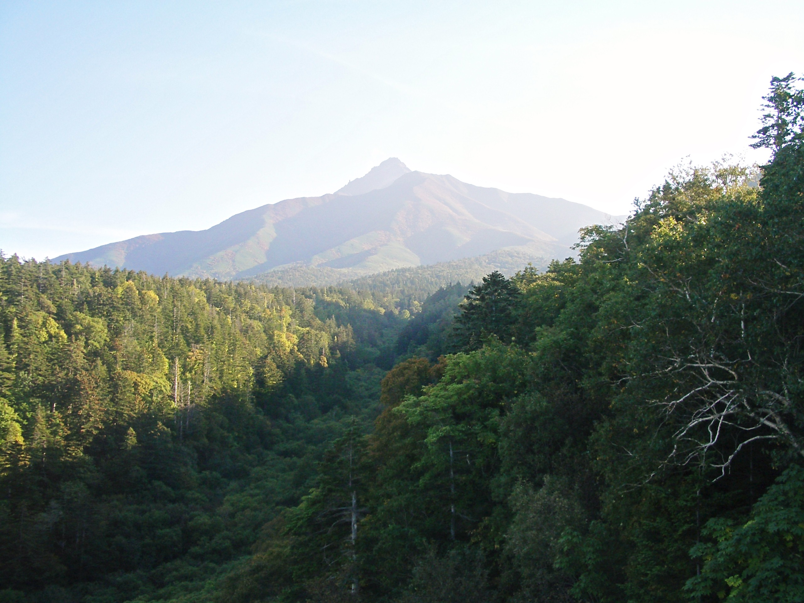 Mt. Rishiri, Rishiri Island, Japan